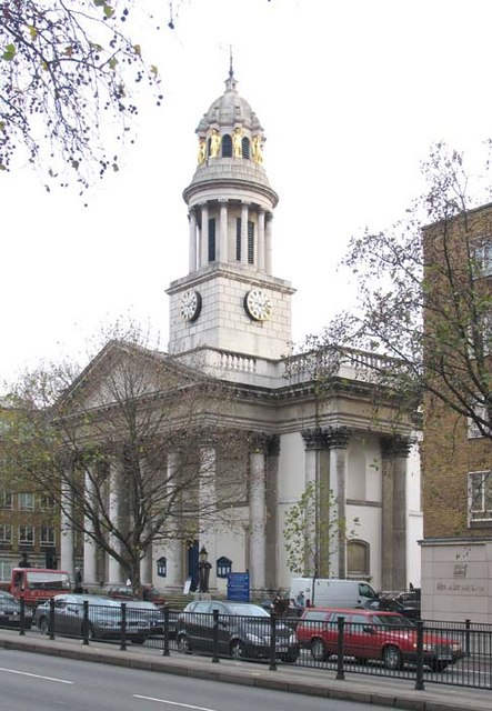 St Marylebone Church, Marylebone Road, London W1 This church was built in 1813-17 by Thomas Hardwick